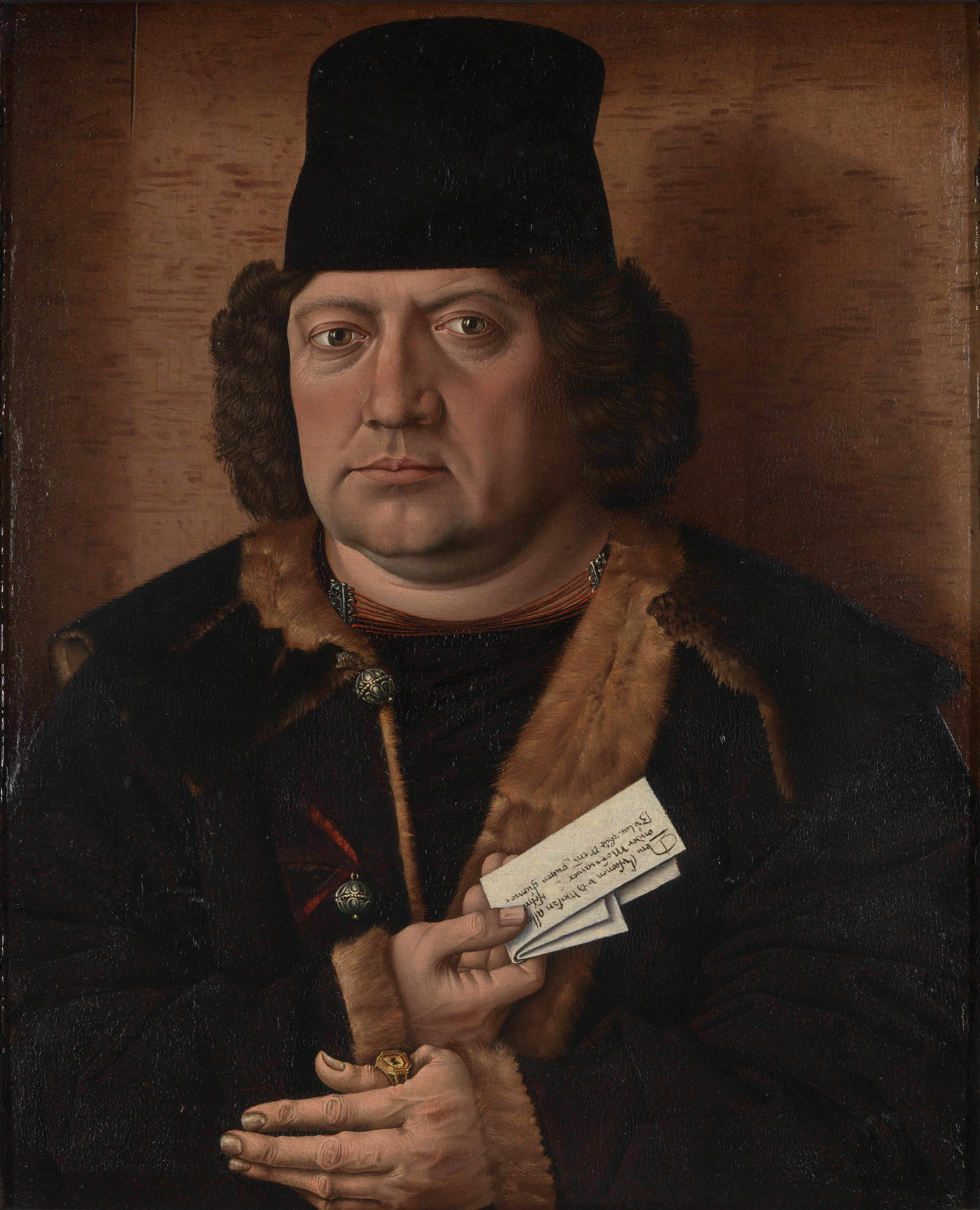 Master of the Mornauer Portrait's name piece.